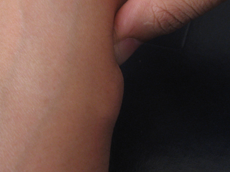 Lipoma